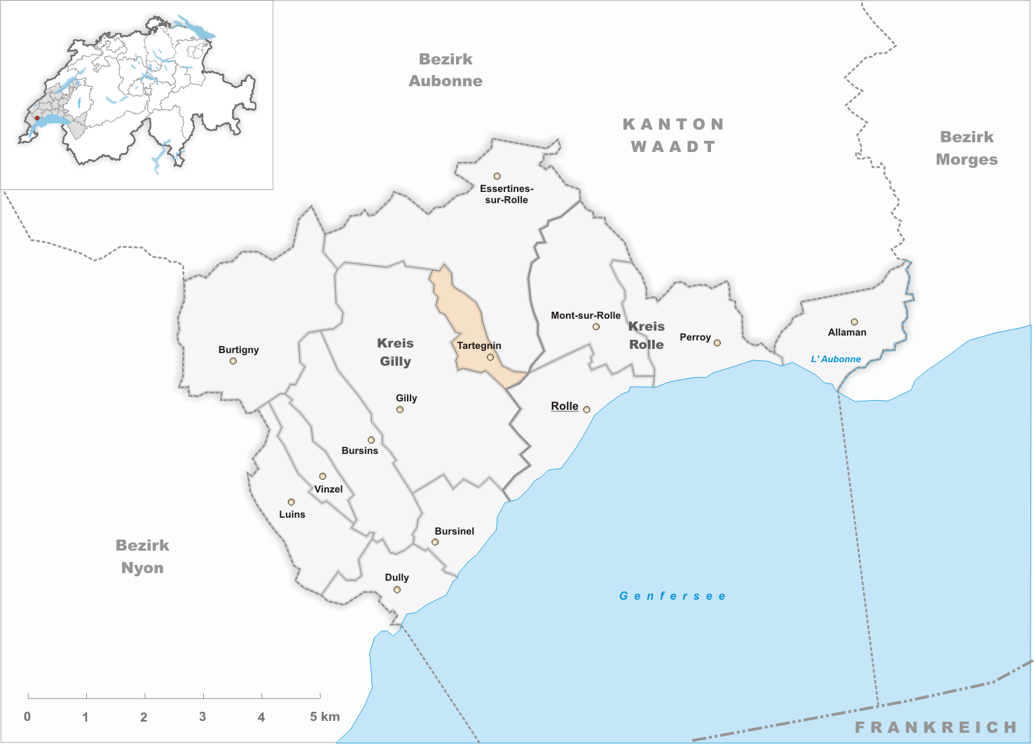 Municipality Tartegnin